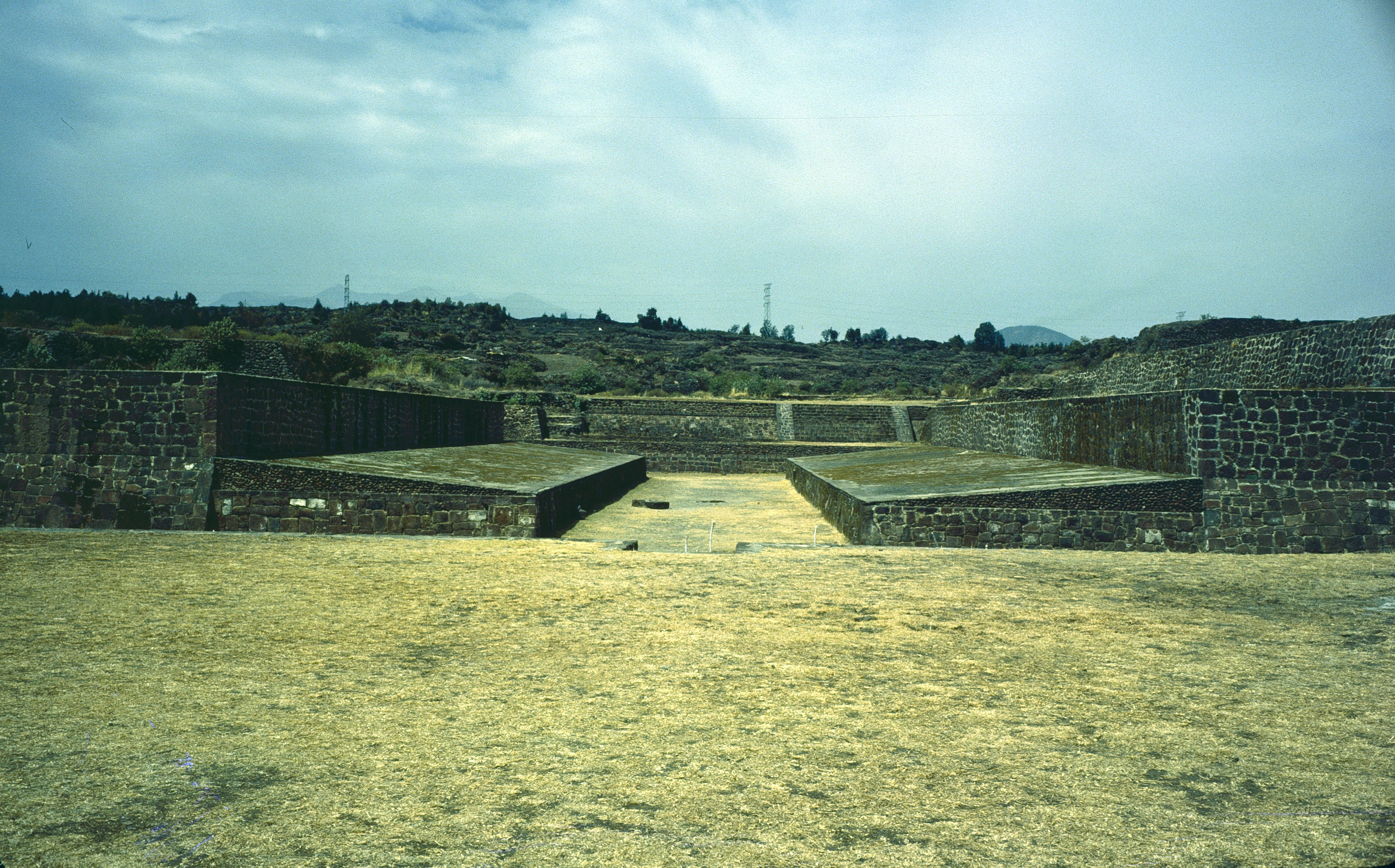 Teotenango, Estado de México, Mexico: ball court